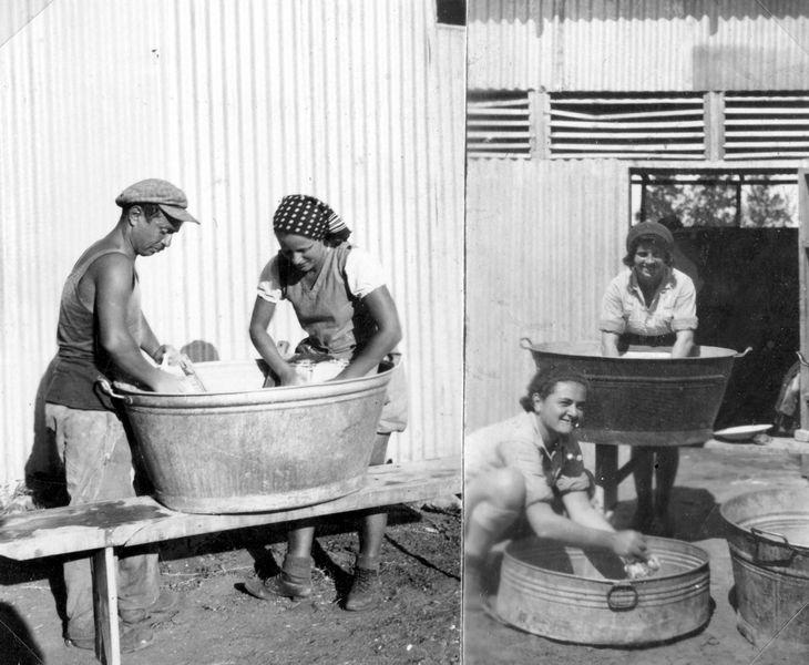 Ein Hahoresh, Econimy of Israel